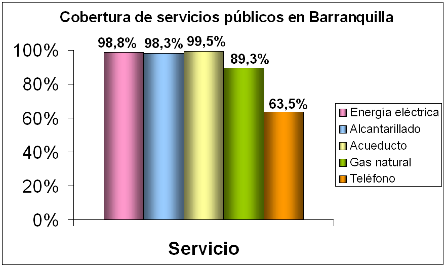 Barranquilla_-_Cobertura_de_servicios_públicos_en_viviendas2.png